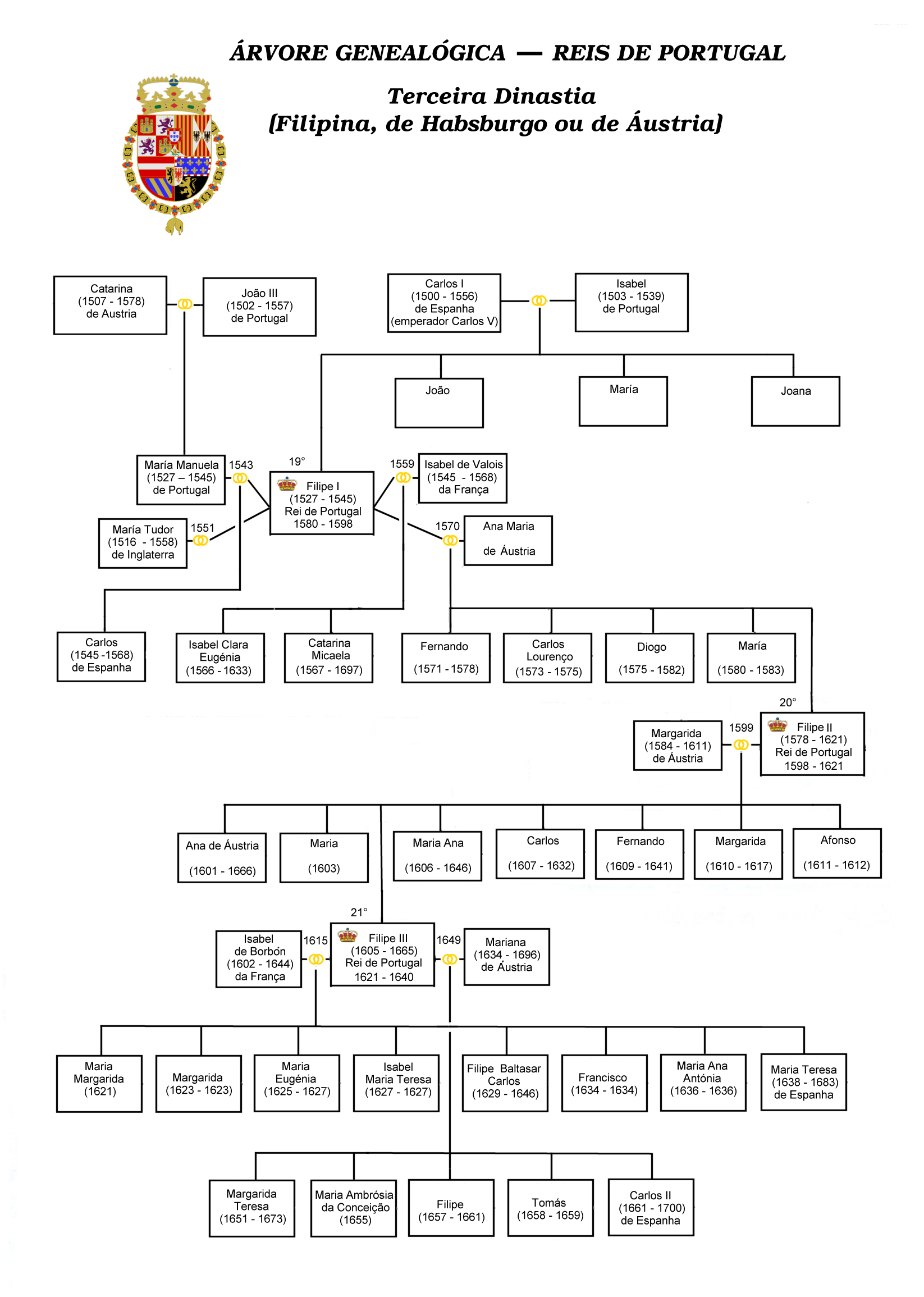 Genealogical tree of the third dynasty of the Portugal Kings